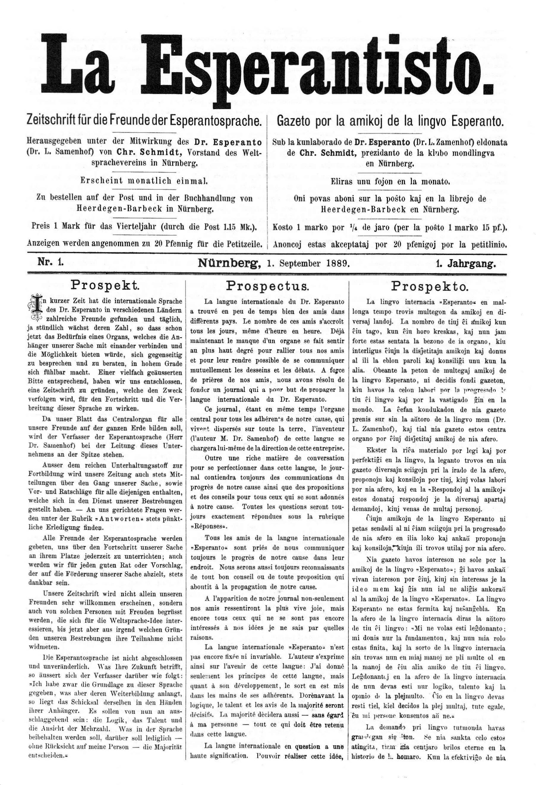 La Esperantisto, the first Esperanto periodical, printed in Nurenberg. First issue, September 1889.